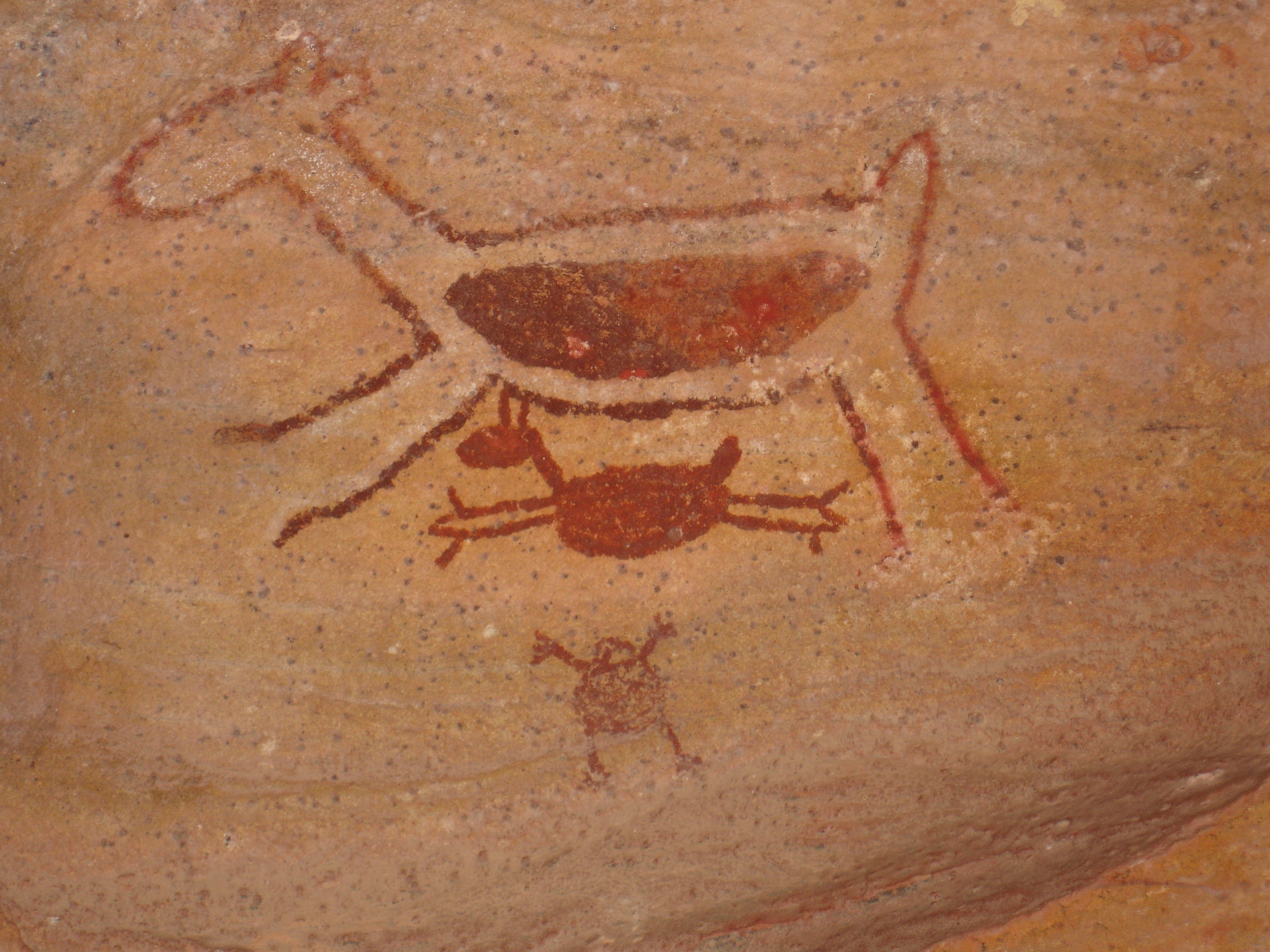 Painting of two animals. This painting is considered the symbol of the park.